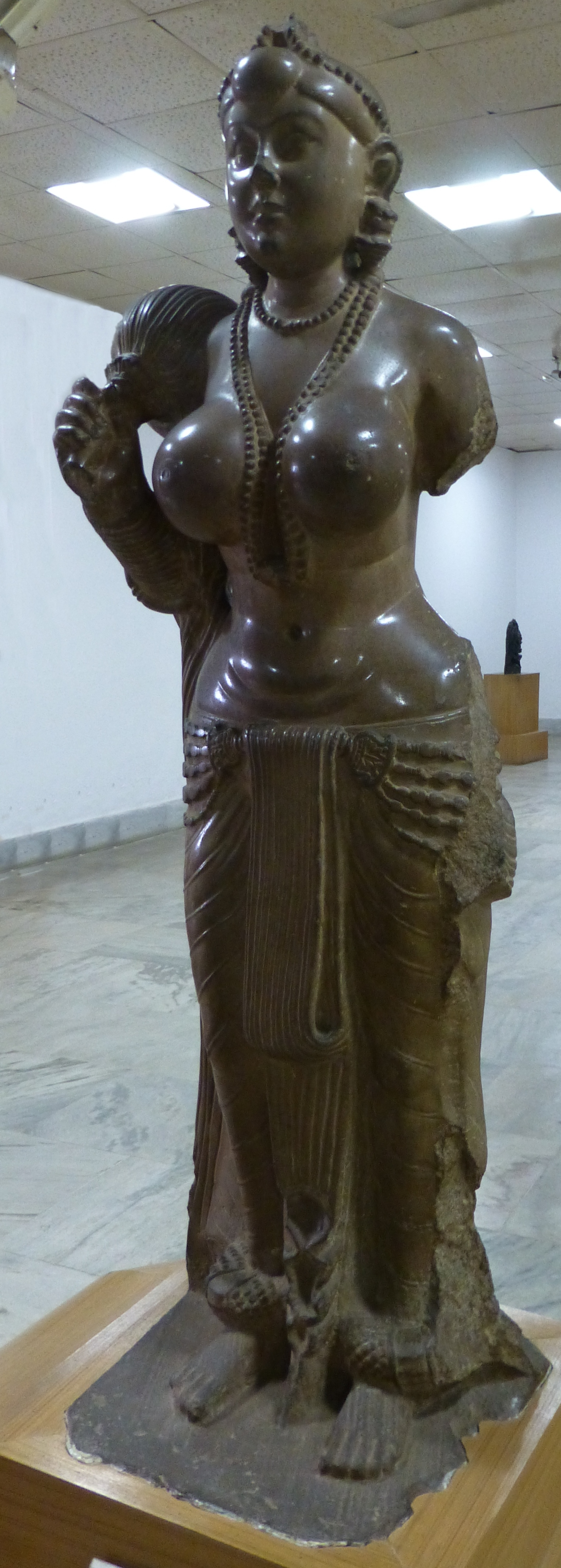 Photograph of the Didarganj Yakshini statue, from the 3rd century BC in the Patna Museum, Bihar, India.